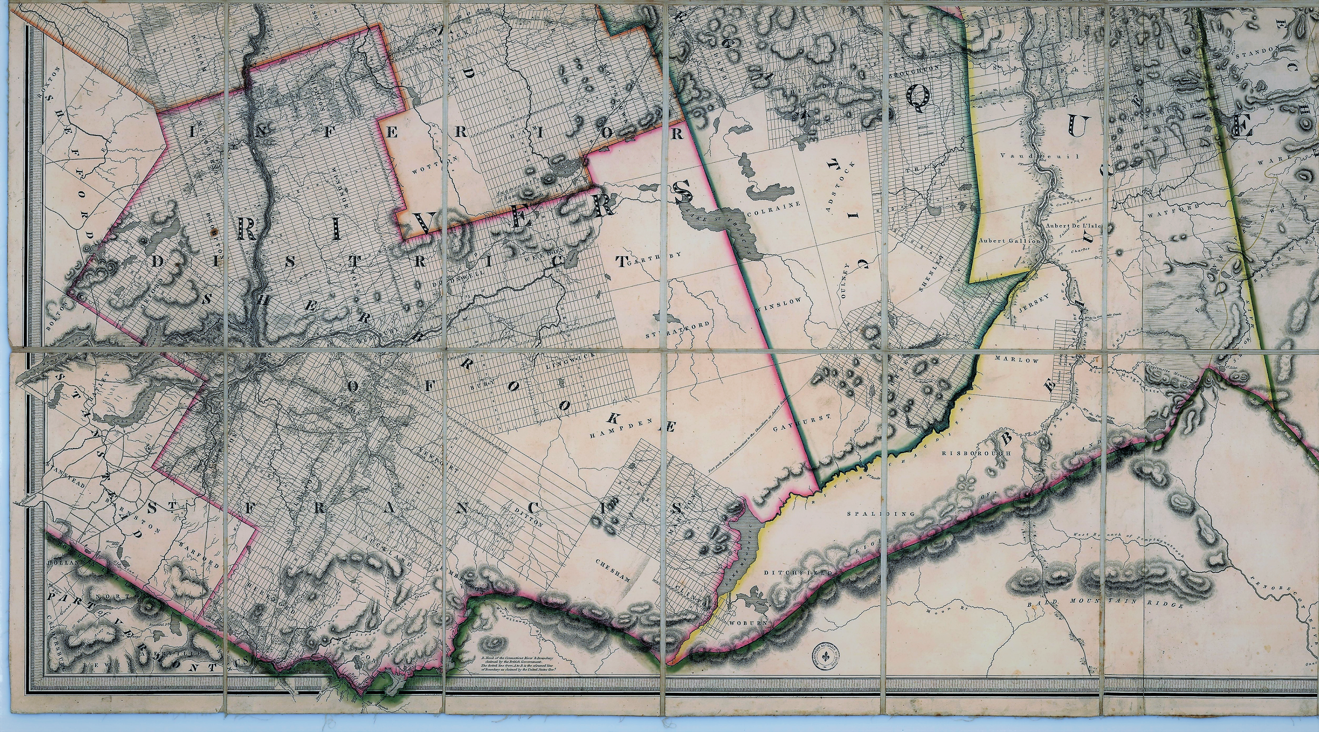 To his most Excellent Majesty, King William IV. This topographical map of the districts of Quebec, Three Rivers, St.Francis and Gaspé, Lower Canada : exhibiting the new civil division of the districts into counties pursuant to a recent Act of the provincial legislature; is with his Majesty's gracious and special permission, most humbly and gratefully dedicated by his Majesty's most devoted and loyal Canadian subject